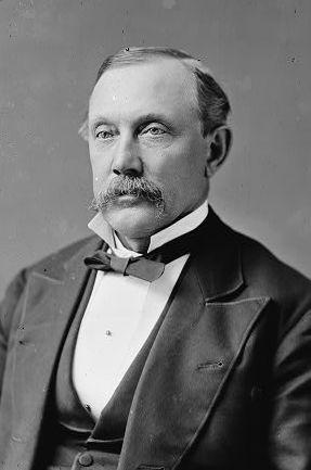 Ansel T. Walling, member of the United States House of Representatives from Ohio.